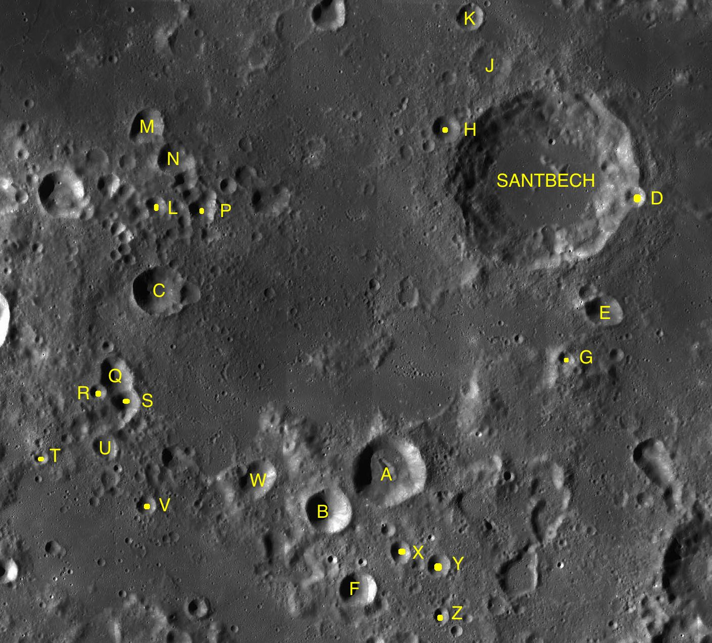 Part of the chart LAC-97 used for the presentation.